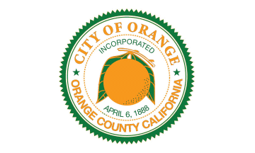 Reconstruction of the flag of Orange, California by Randy Young on July 20, 2014.